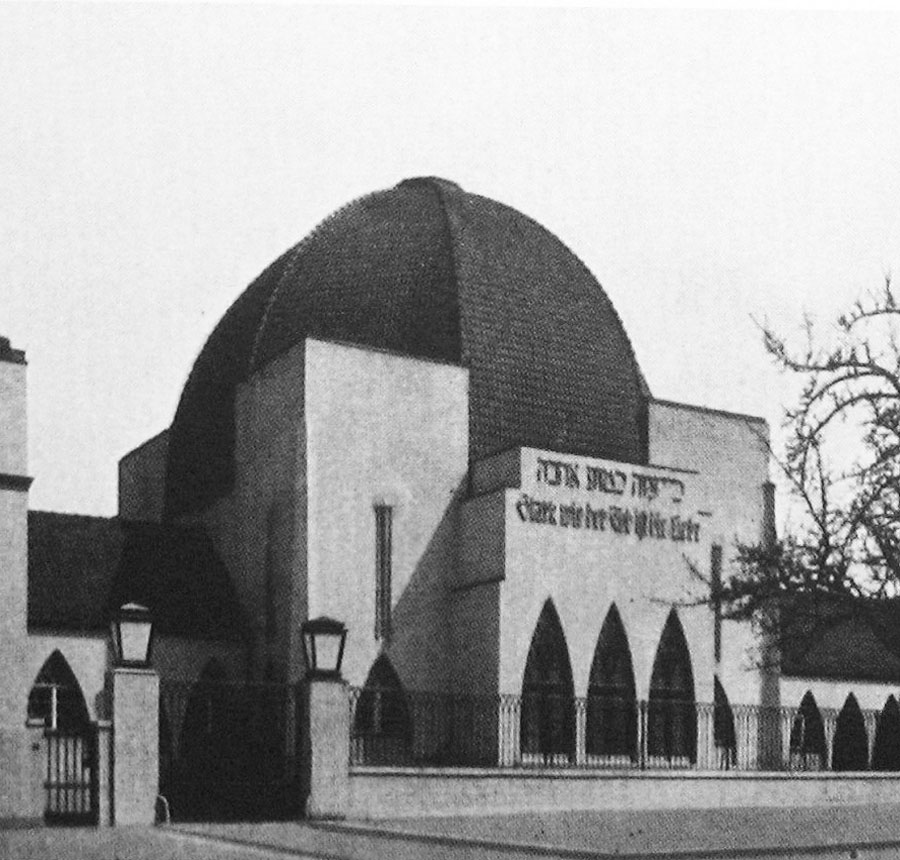 Celebration Hall at the New Jewish cemetery in Leipzig, built in 1928 by Wilhelm Haller (1884—1956)